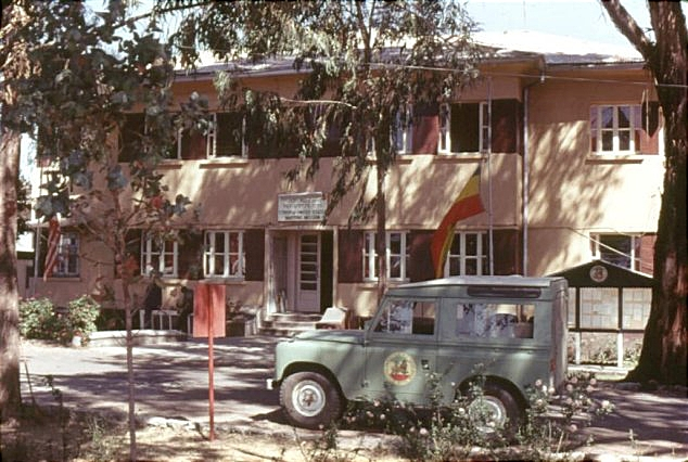 Ethiopia-United States Mapping Mission Headquarters building